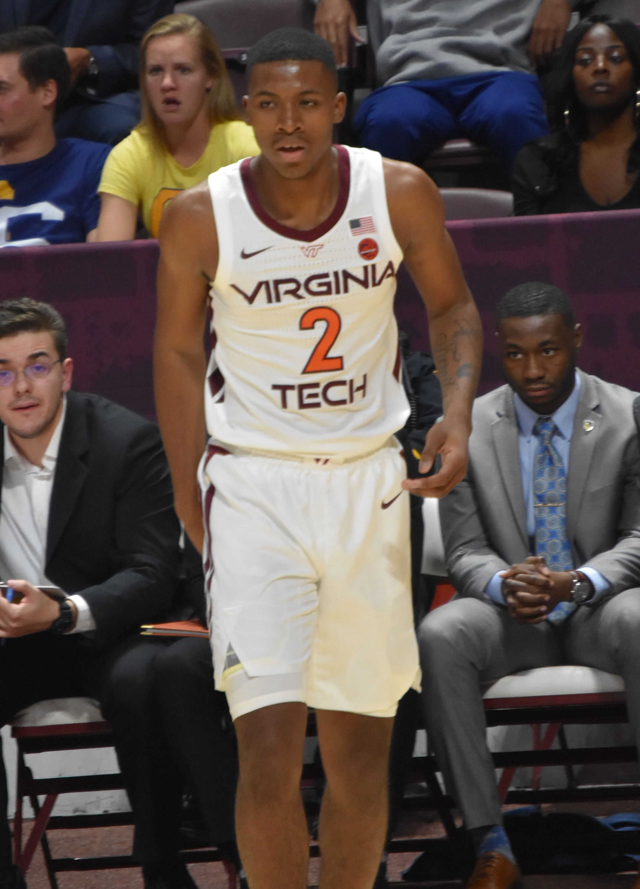 Landers Nolley on the floor at Cassell Coliseum against the Coppin State Eagles.